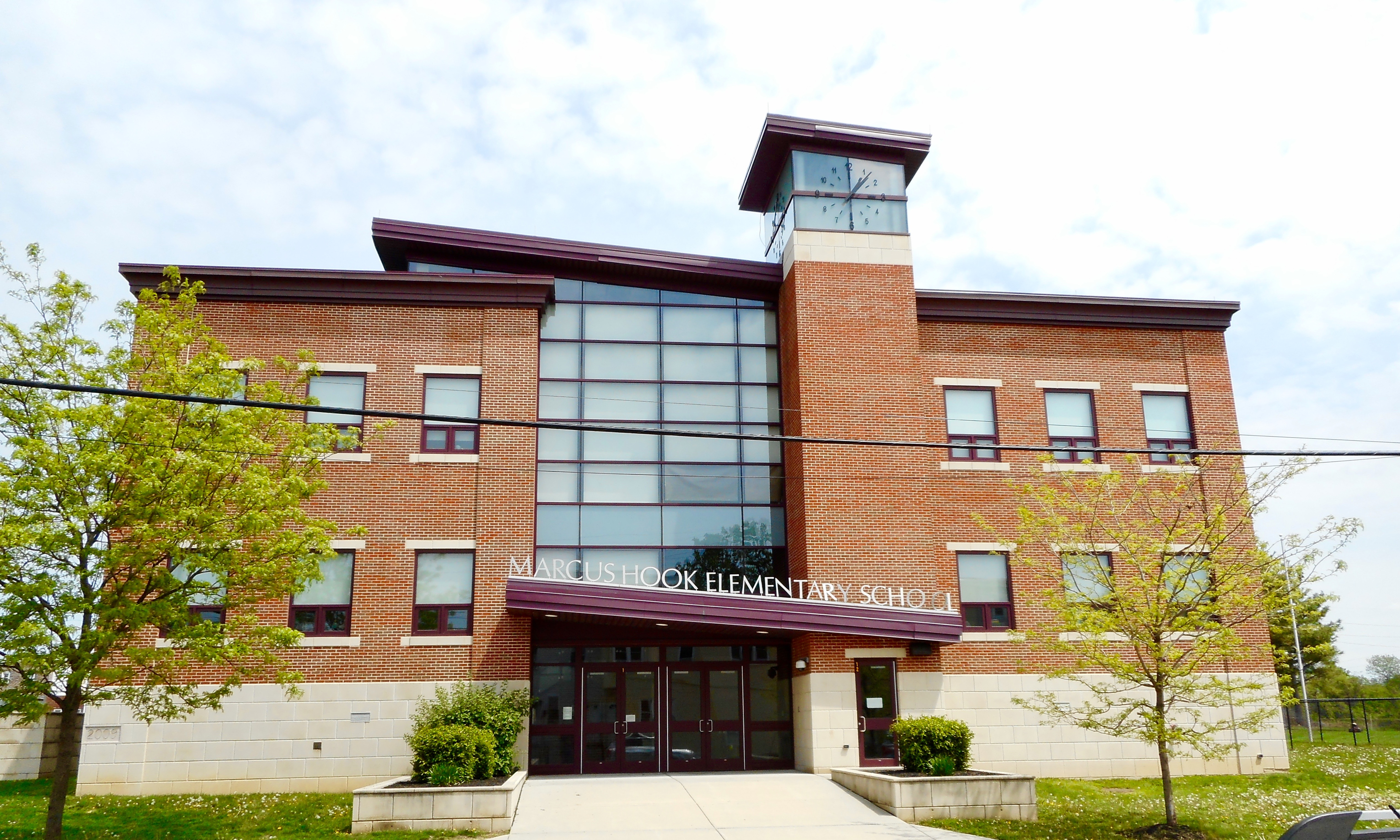 Marcus Hook Elementary School, built in 2009, in Marcus Hook, Pennsylvania. The angled entry way cover looks intentional.